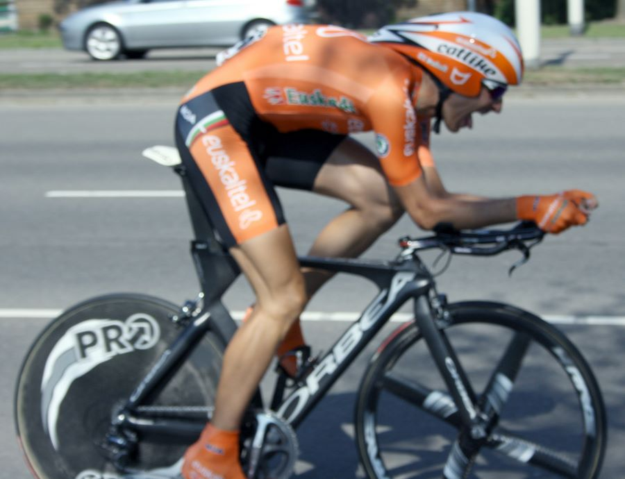 Juan José Oroz at the 2009 Eneco Tour prologue